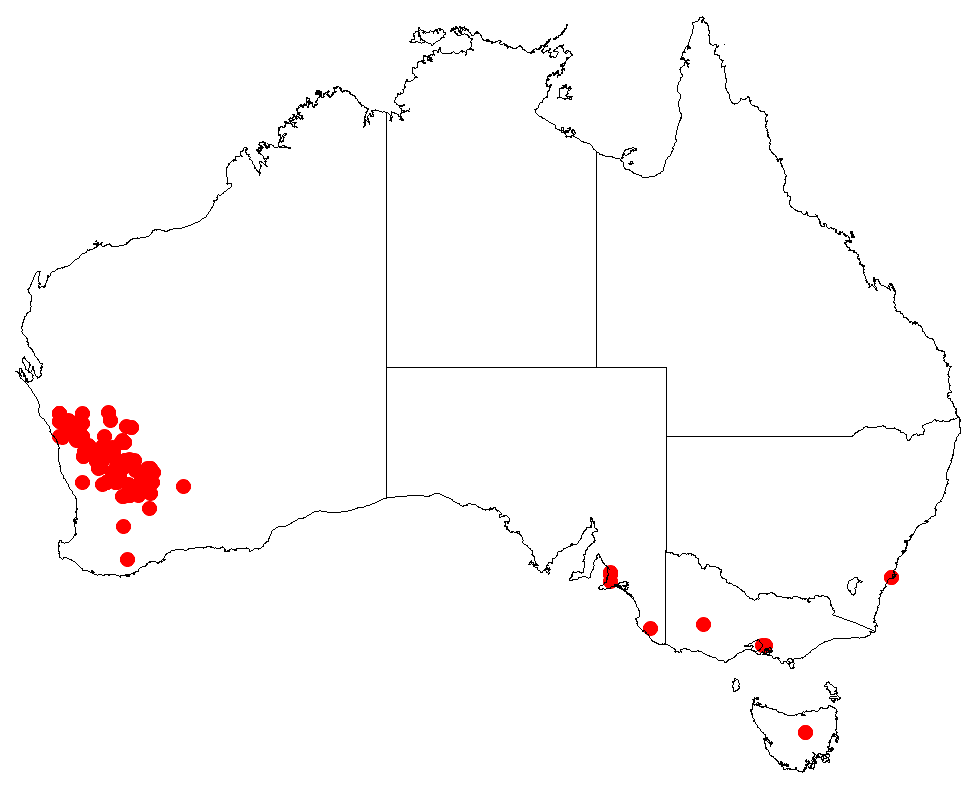 Hakea invaginata Occurrence data downloaded from Australasian Virtual Herbarium on 22 November 2018 using